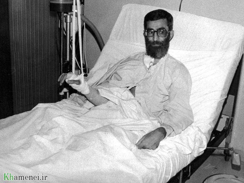 Ayatolla Ali Khamenei in Hospital after Assassination Attempt